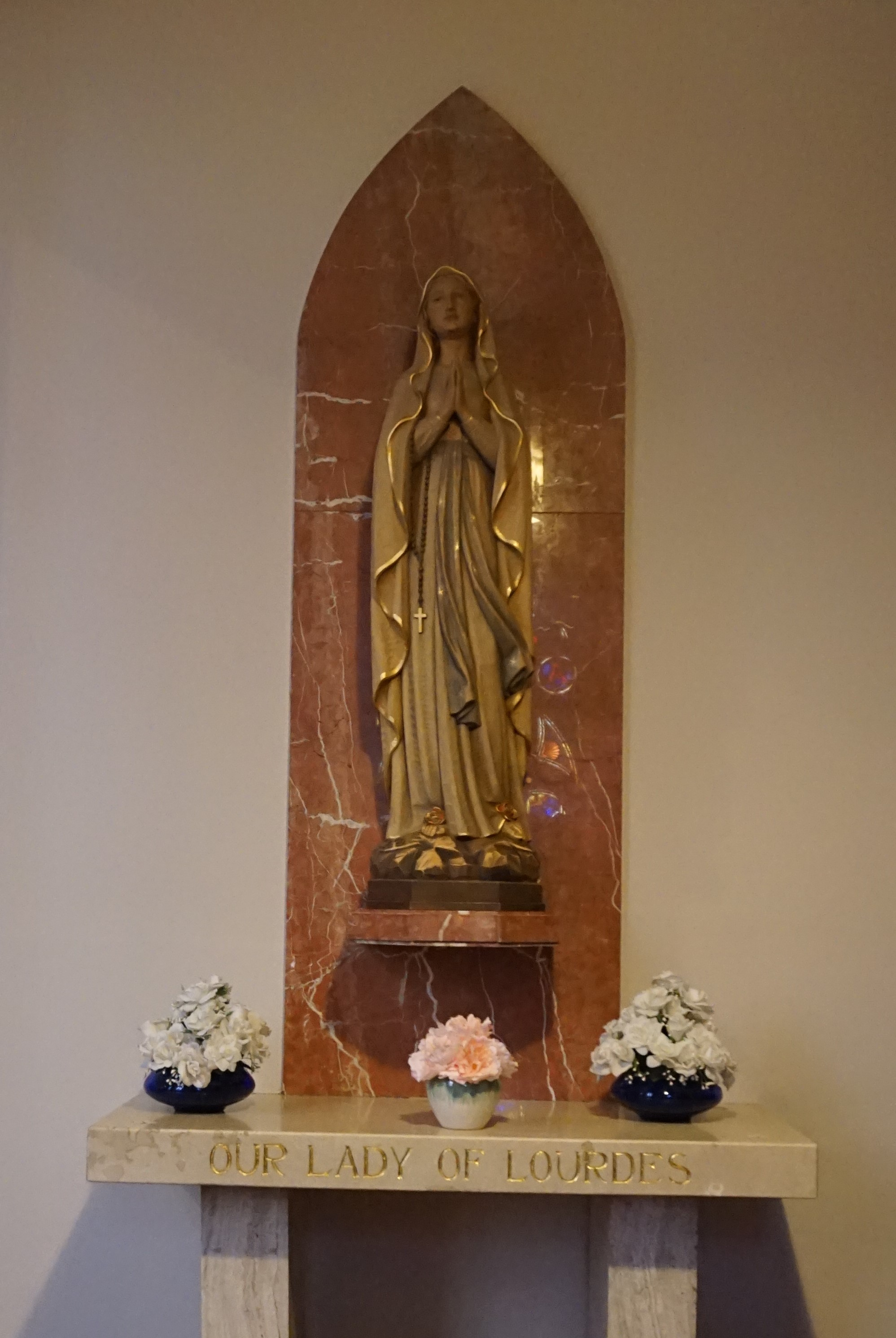 Lourdes Shrine of St. Dominic Church in Southwest Washington, DC